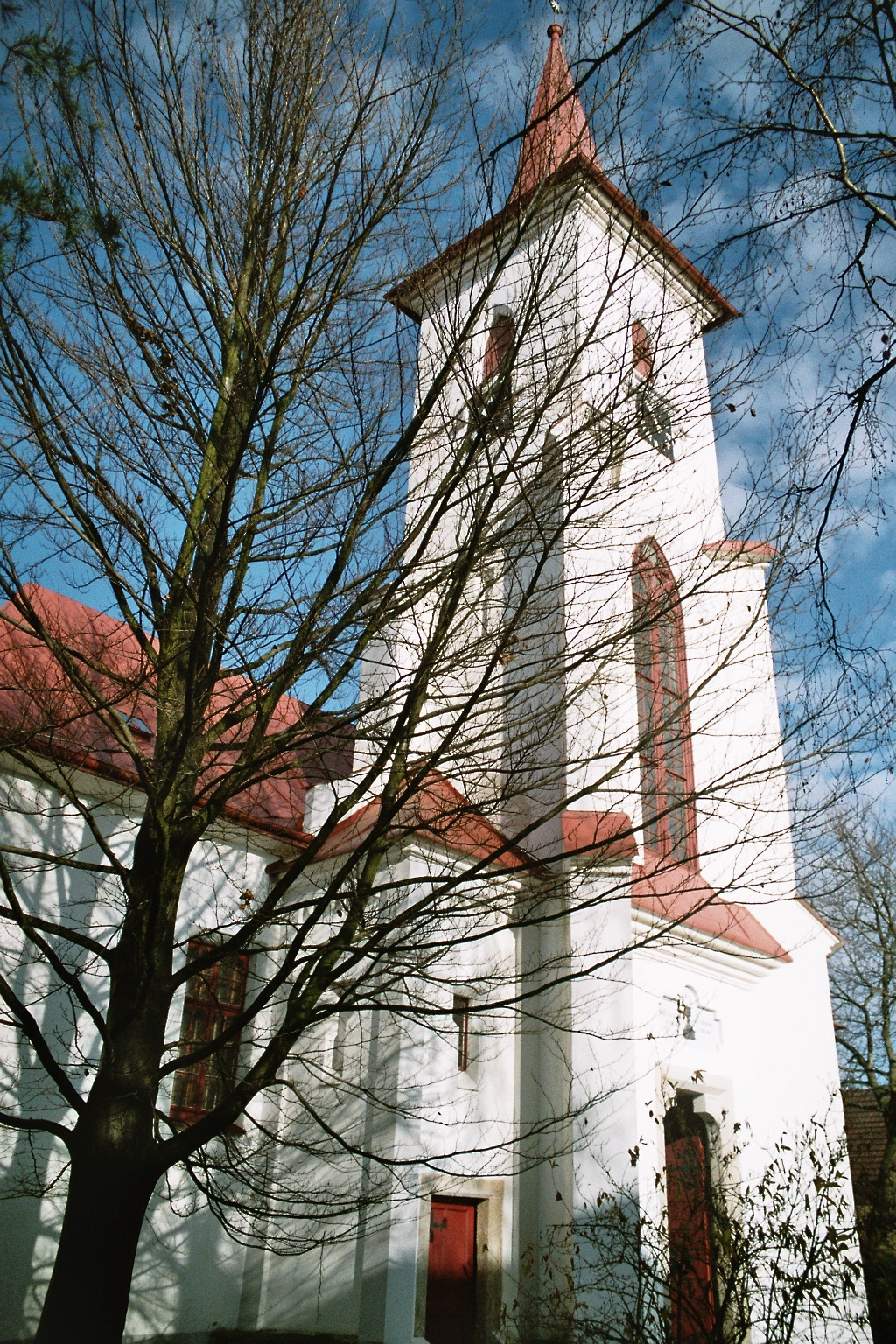 Church in Moraveč, Vysočina Region, Czech republic